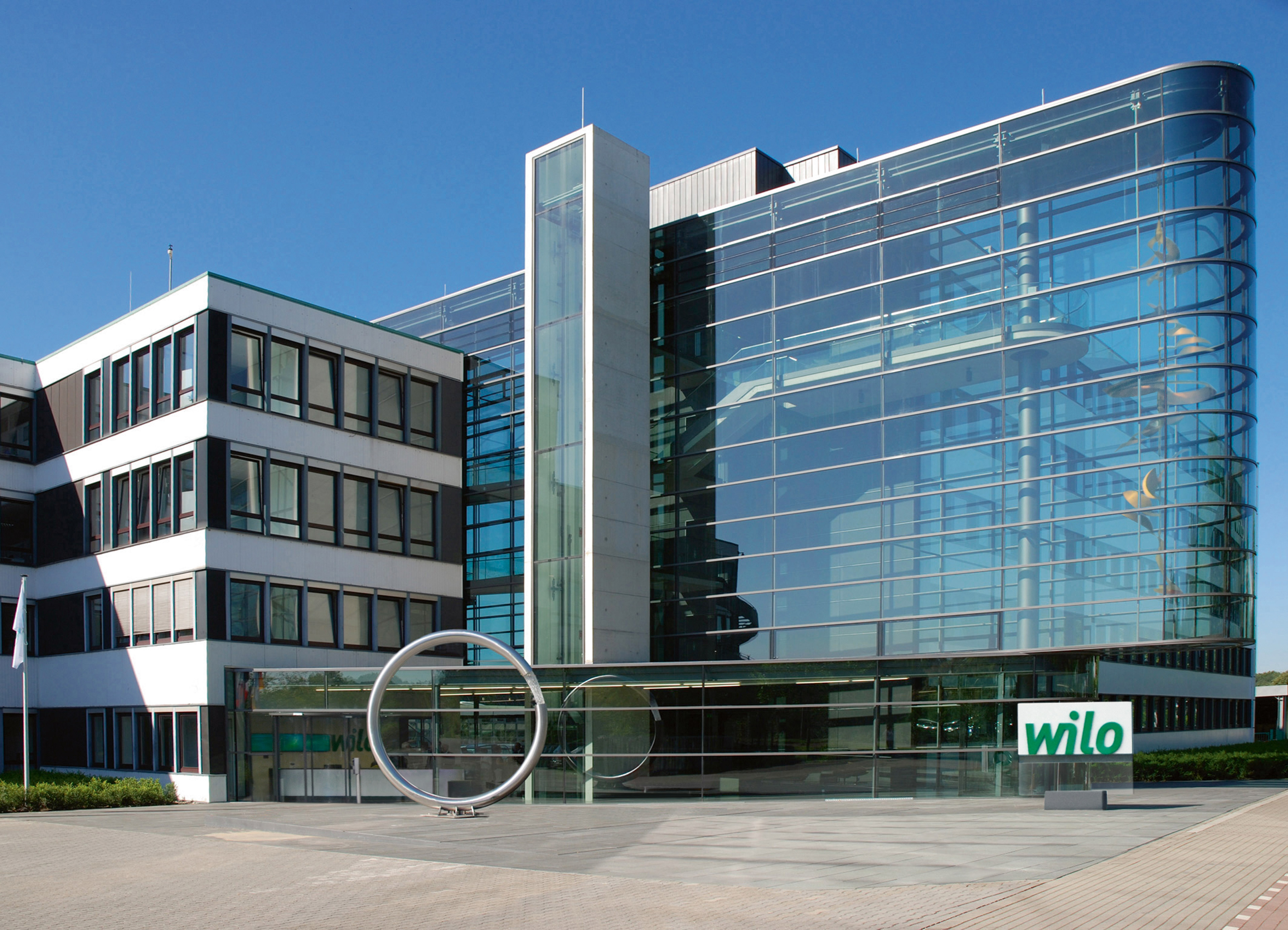 Headquarter in Dortmund